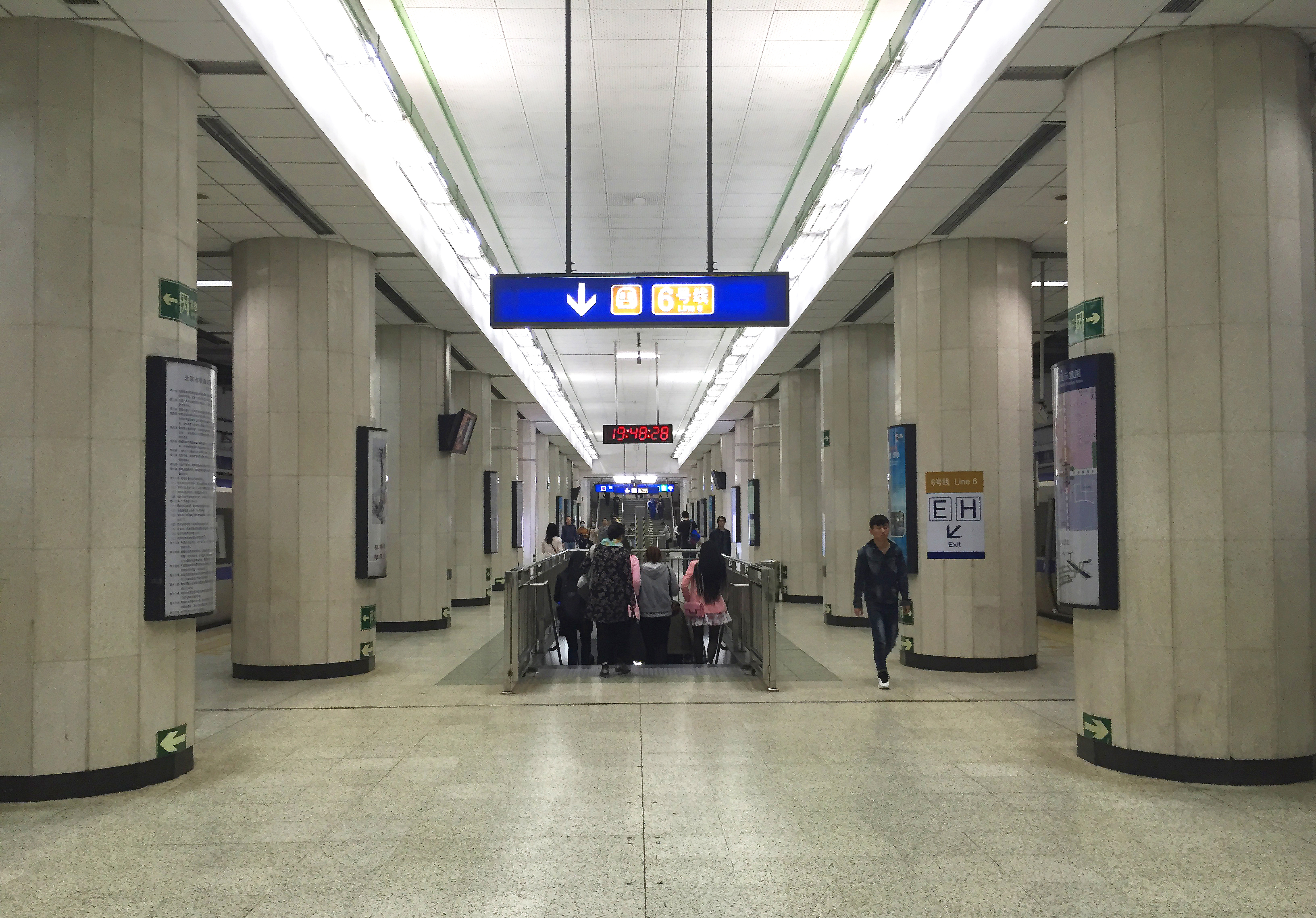 With interchange to Line 6.